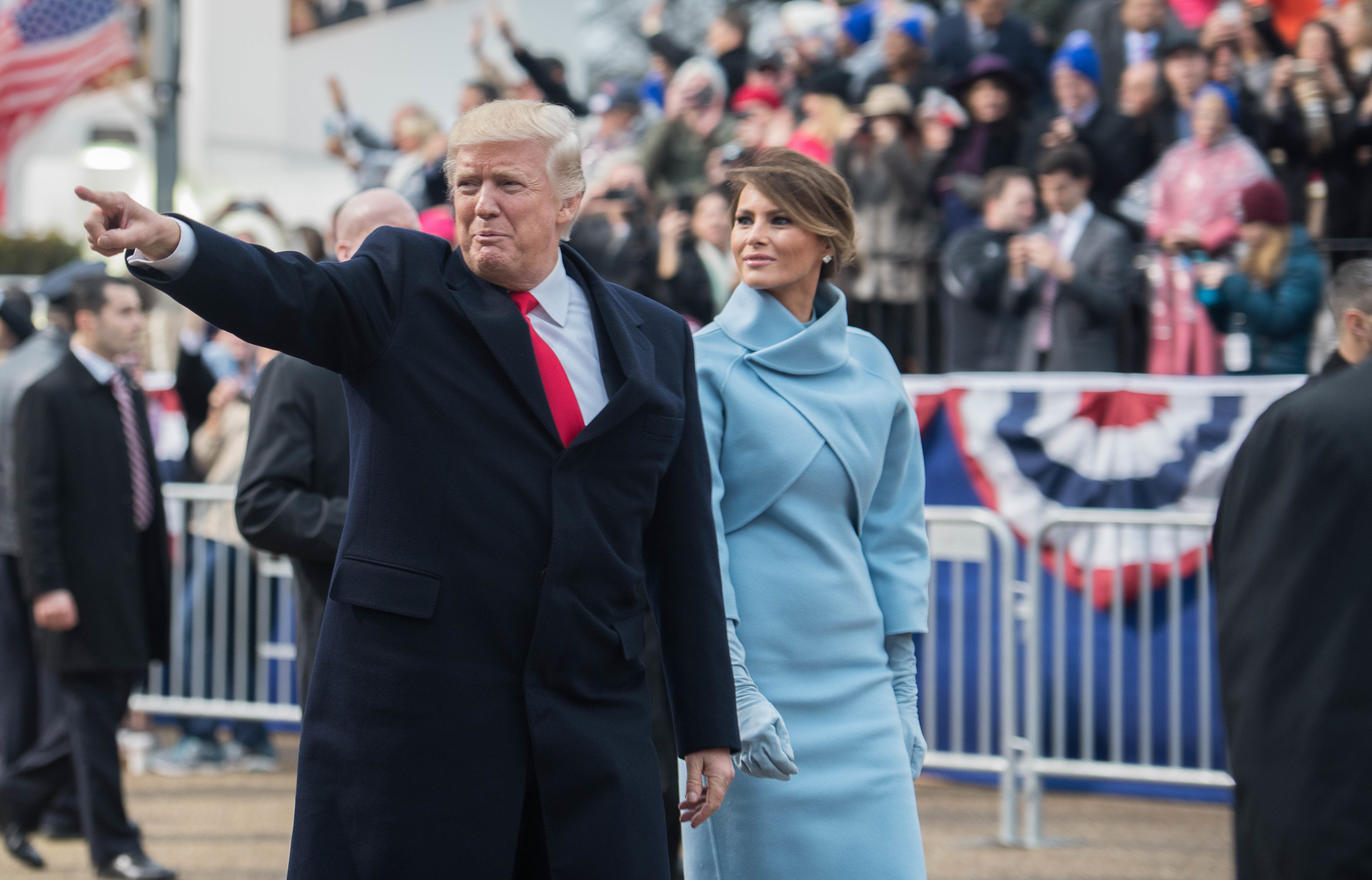 President Trump points at the crowd as he walks pass the inaugural parade reviewing stand in the 58th Presidential Inaugural parade in Washington D.C., January 20, 2017. U.S. Armed Forces personnel provide ceremonial support to the 58th Presidential Inaugural during the Inaugural period. This support comprises musical units, marching elements, color guards, salute batteries, and honor cordons, which render appropriate ceremonial honors to the Commander-In-Chief. (U.S. Army photo by Pvt. Gabriel Silva)